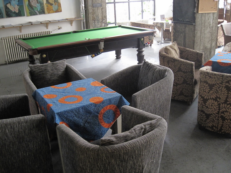 The public area of a hostel in Chengdu China